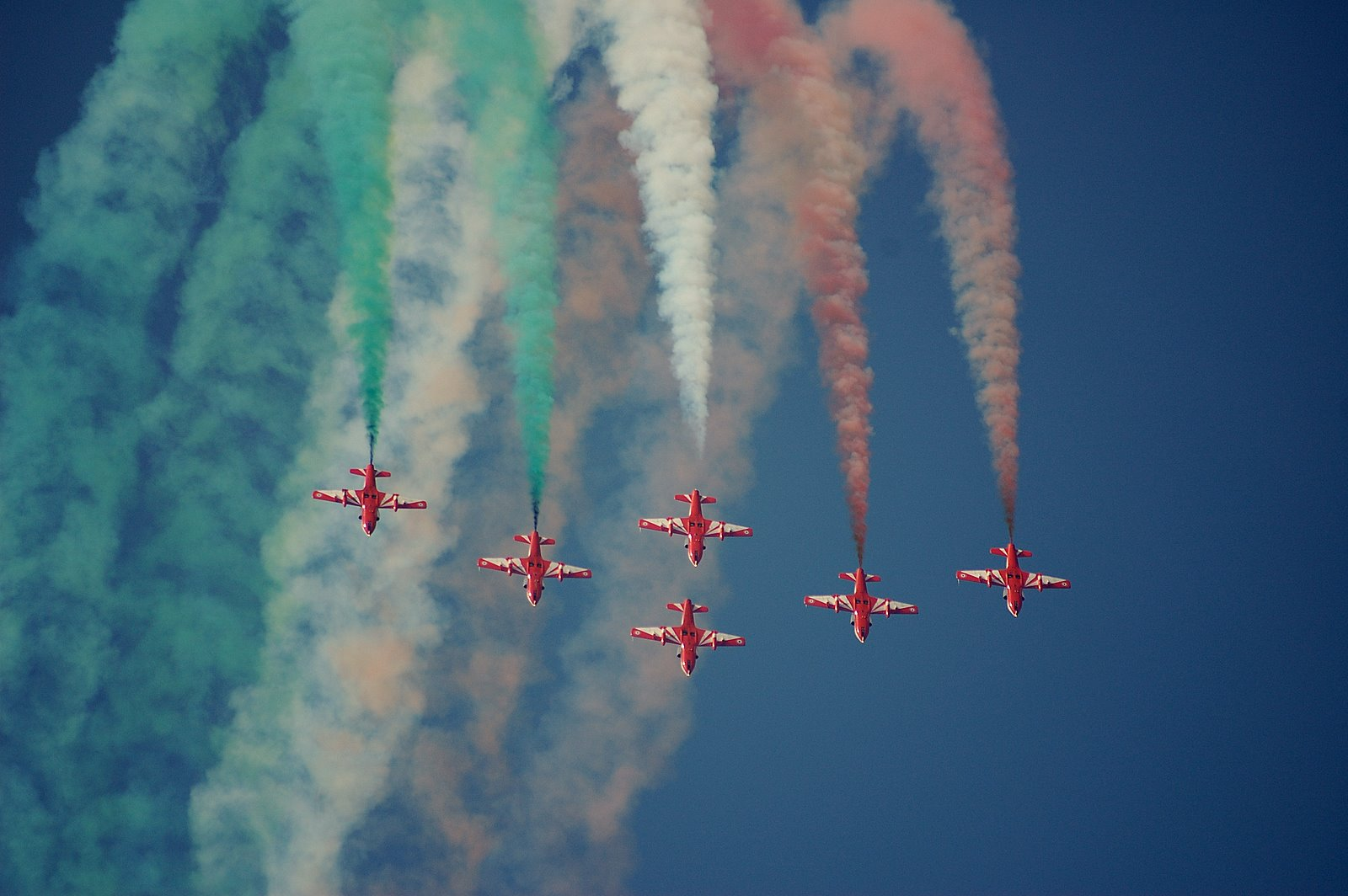 IAF Surya Kirans coming out of a Barrel roll.